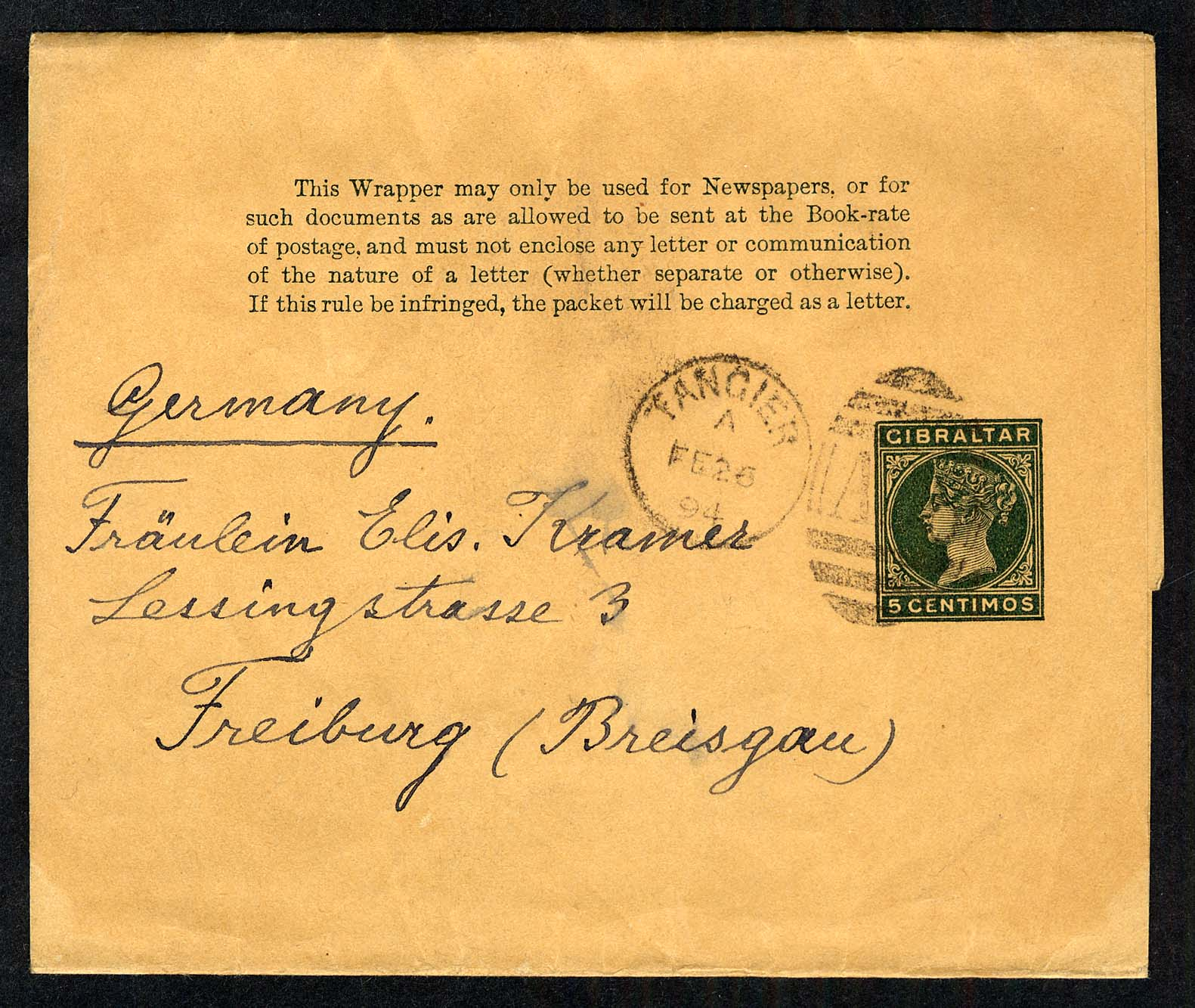 Gibraltar 5c newspaper wrapper used 1894